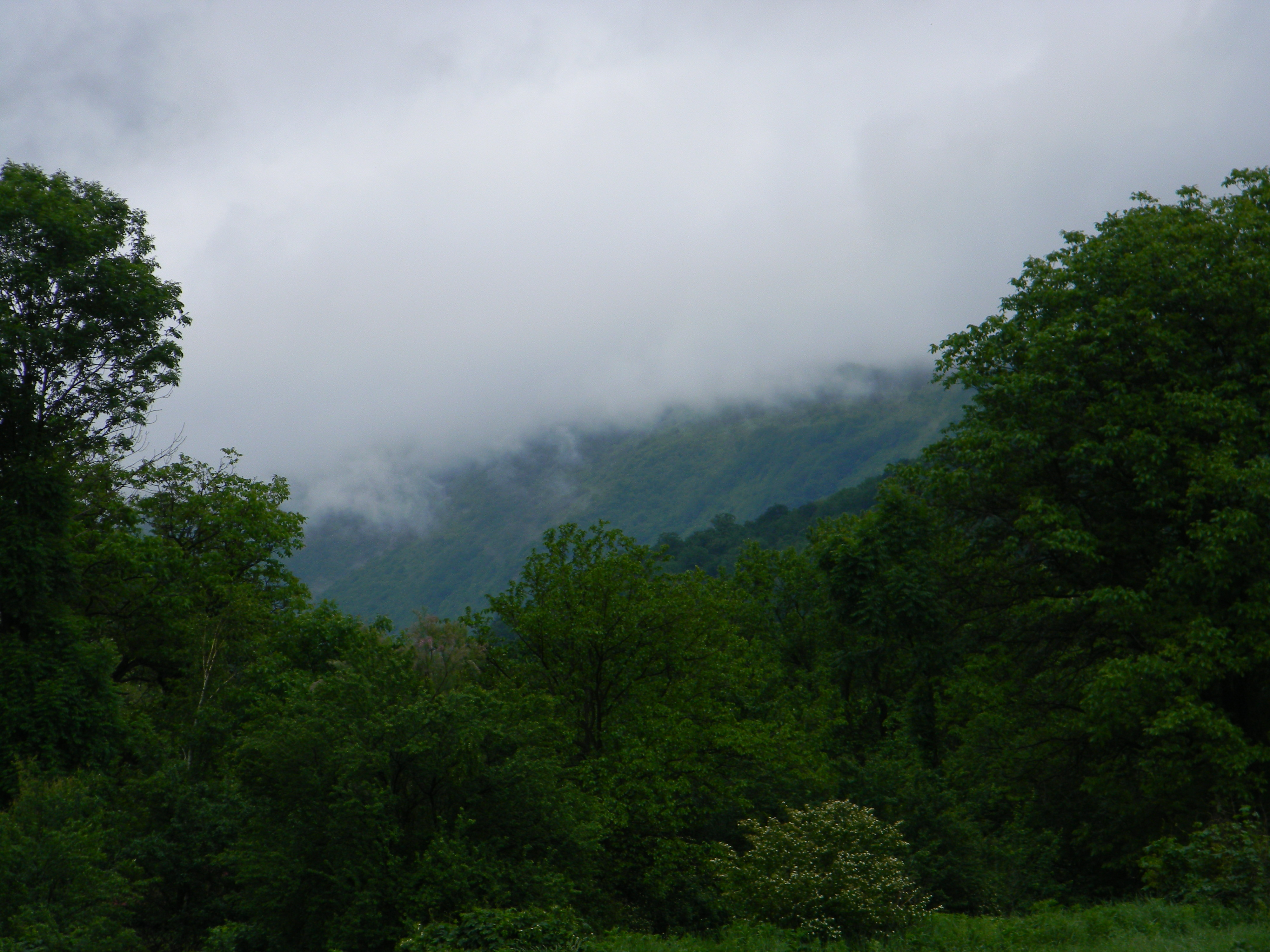 Beljanica mountian